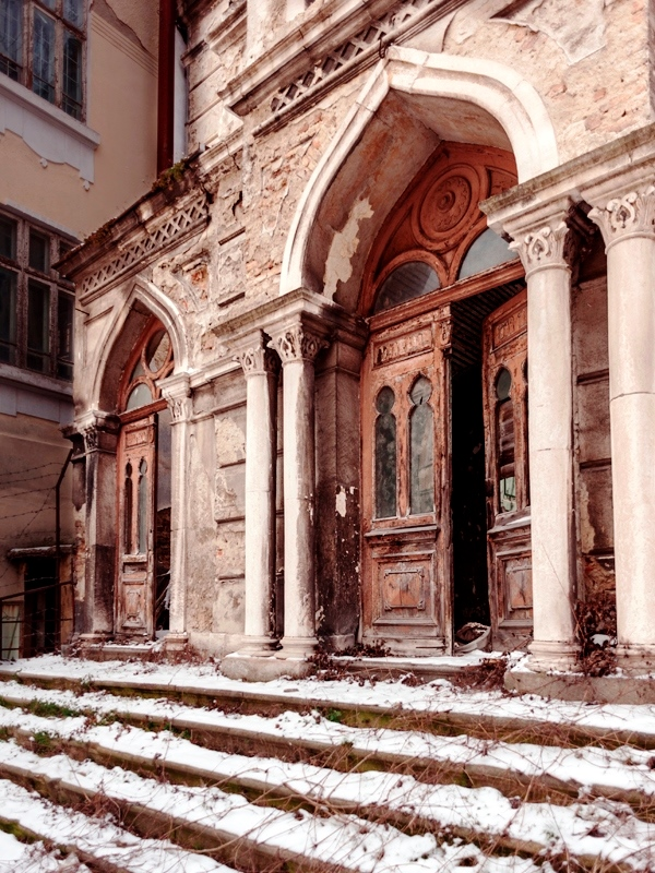 Varna Sepharadic Synagogue in ruins